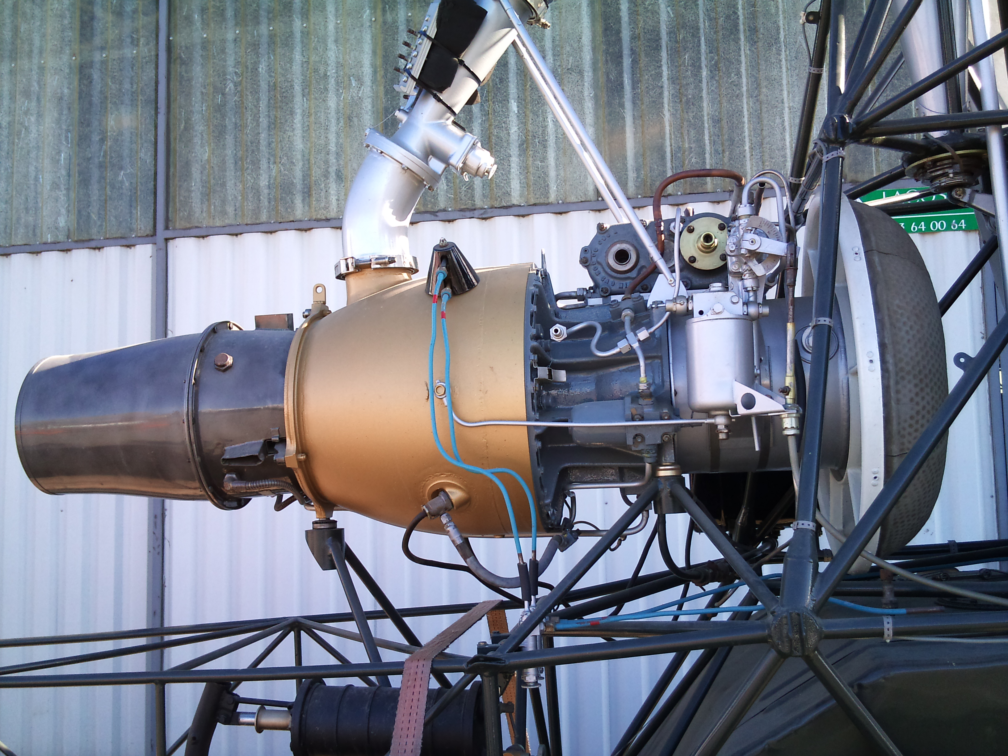 A gas turbine Turbomeca Palouste IV mounted on a SO.1221 Djinnbelonging to the french Air & Space Museum and restored by the association Ailes Anciennes Toulouse.